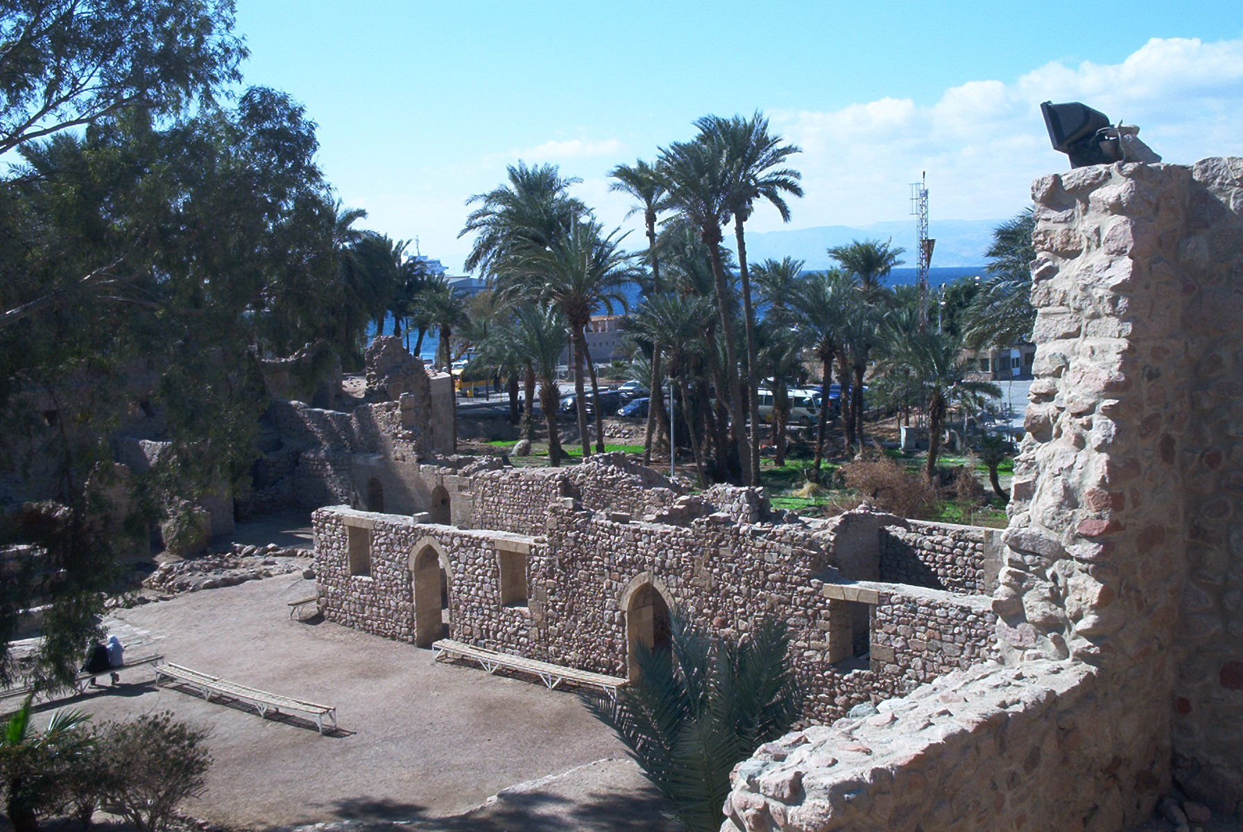 Tha Aqaba Fortress 2006